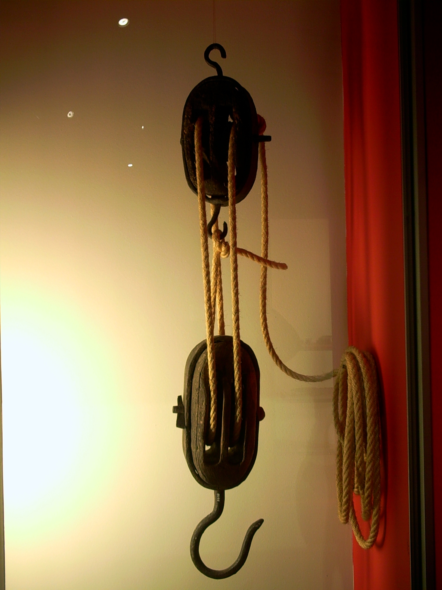 Pulley, at the mNATEC, Terrassa, (Catalunya).